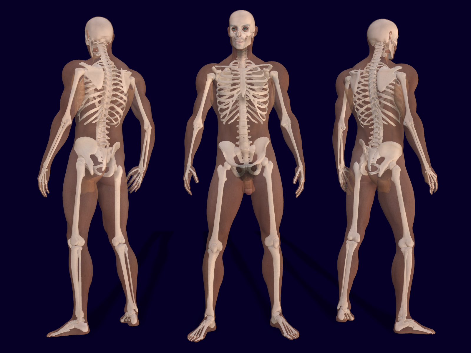 3D render of a male skeleton with body shape in three views. Resolution: 1600 x 1200 px, 150 dpi.